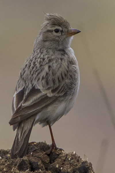 The species Hume's Short-toed Lark had been photographed at Laxman Chowk, Sikkim, India on 13.05.2014.